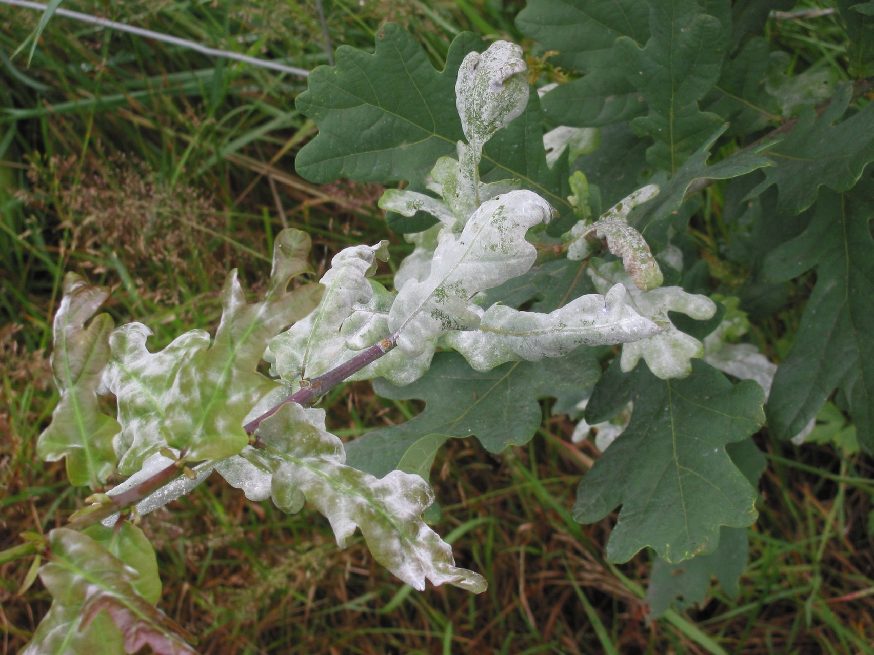 (nl: Zomereik met meeldauw) Quercus robur with Microsphaera alphitoides